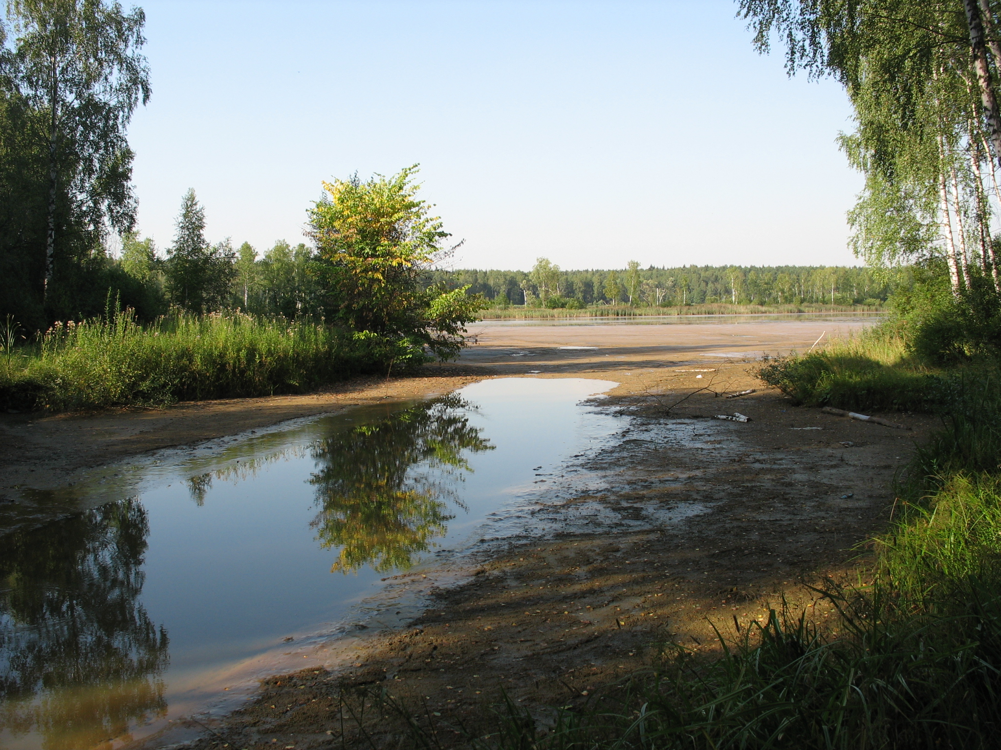 Mazurinskoe lake in Moskovskaya oblast, Balashikha, Russia. Beautiful lake and resort in the past, now it is destroyed due to improper wastewater treatment. Source of river Gorenka in the past.